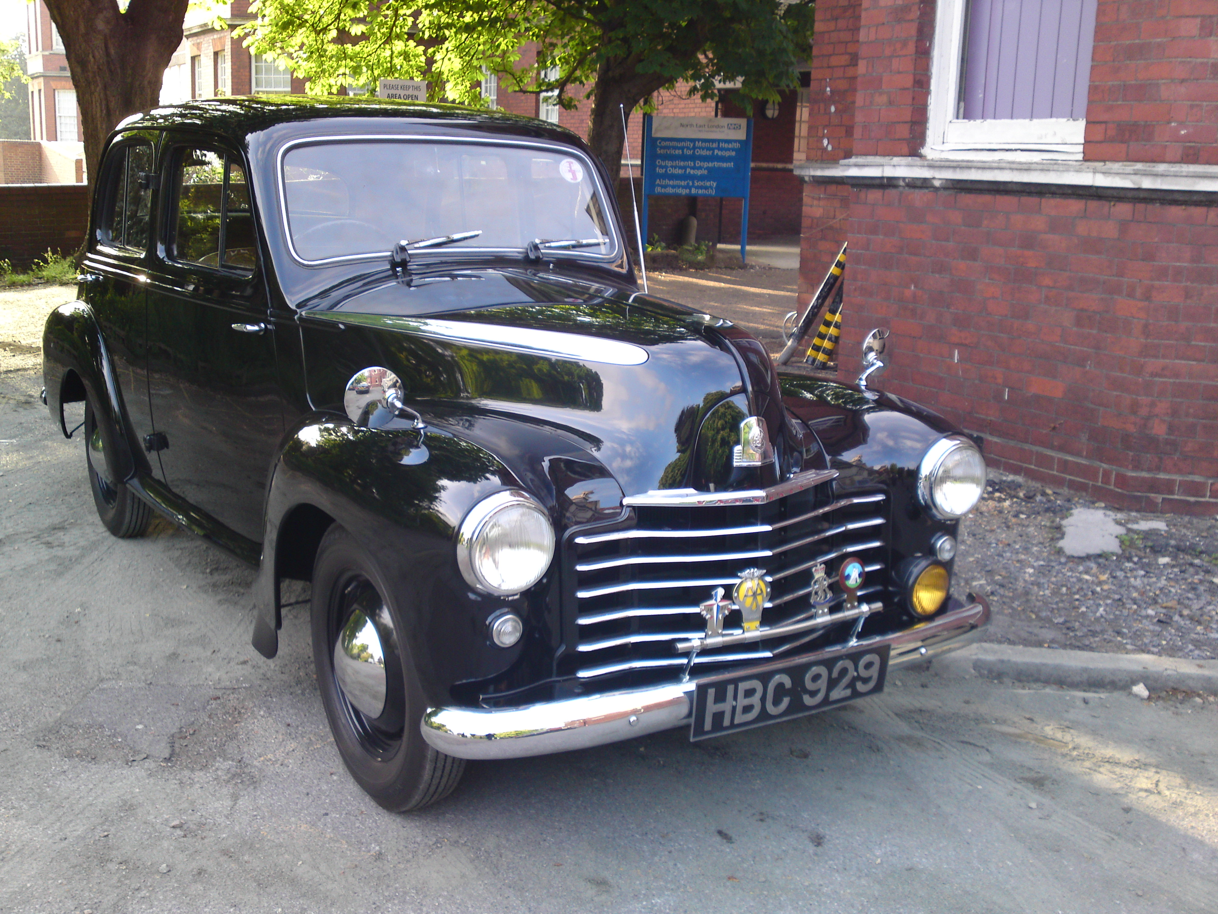 car